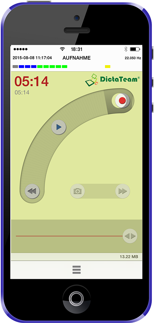 dictate on demand mobile